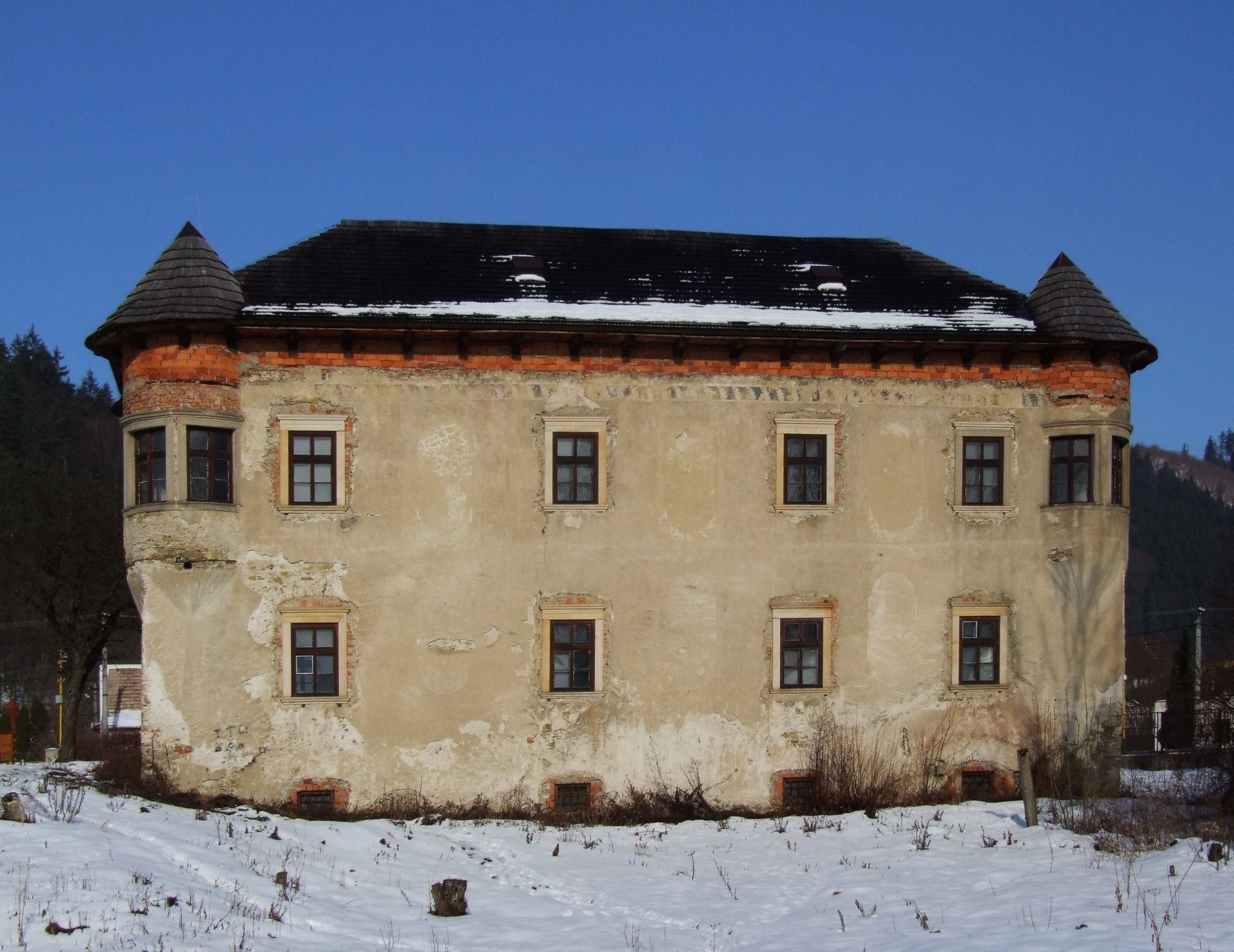 Manson in Divinka, Slovakia